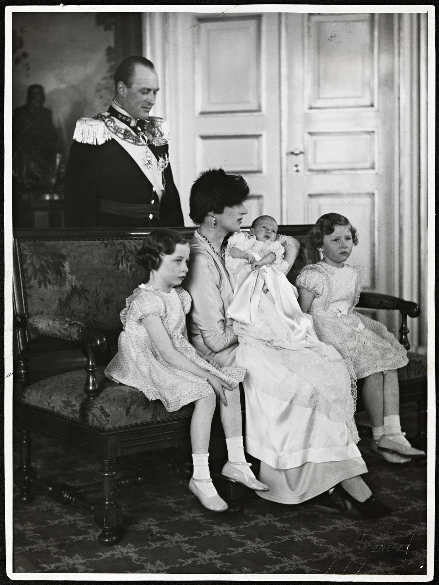 Tittel / Title: Kronprinsfamilien ved Prins Haralds dåp Dato / Date: 31. mars 1937 Fotograf / Photographer: Anders Beer Wilse (1865-1949) Eier / Owner Institution: Nasjonalbiblioteket / National Library of Norway Lenke / Link: Bildesignatur / Image Number: blds_04774